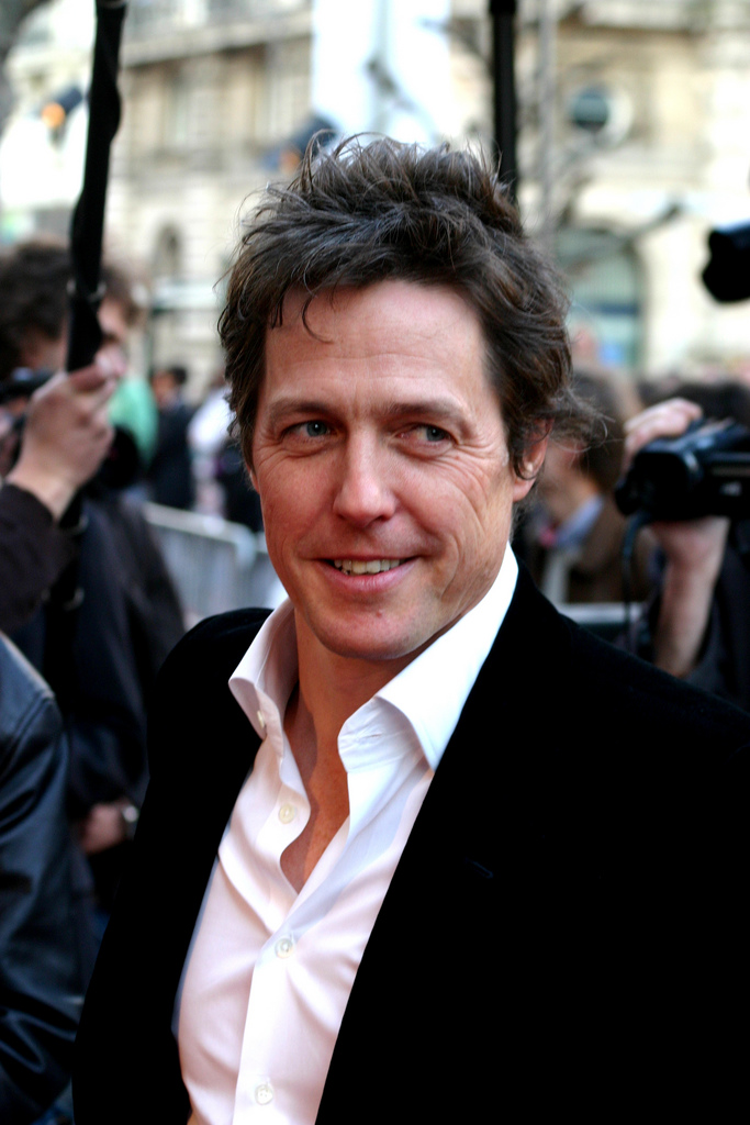 Hugh Grant in Brussels, Belgium, October 2008.